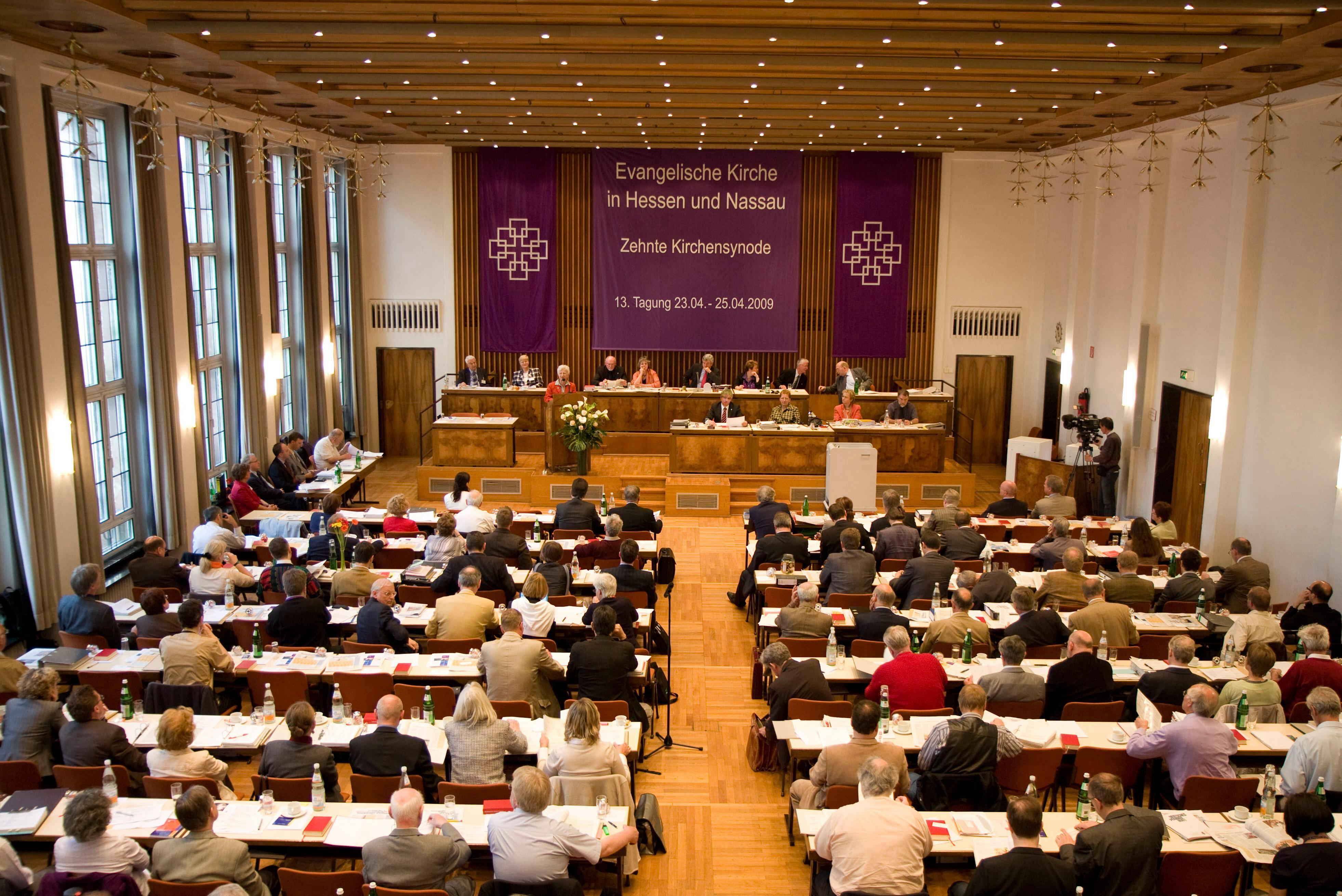 Synode der EKHN